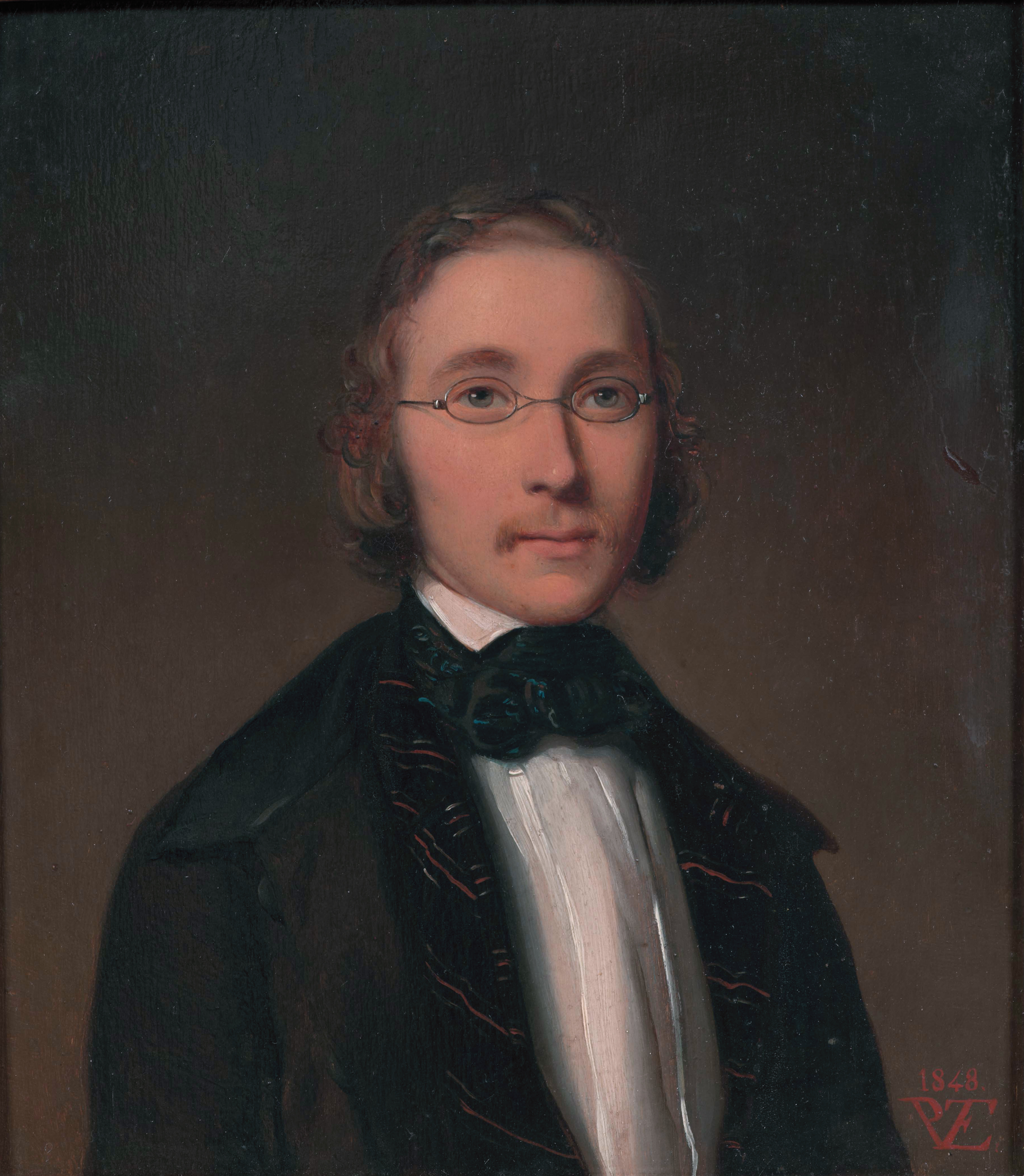 Alexander Hugo Bakker Korff oil on panel 22 × 19,4 cm signed b.r.: 1848 / P.T.V.E.